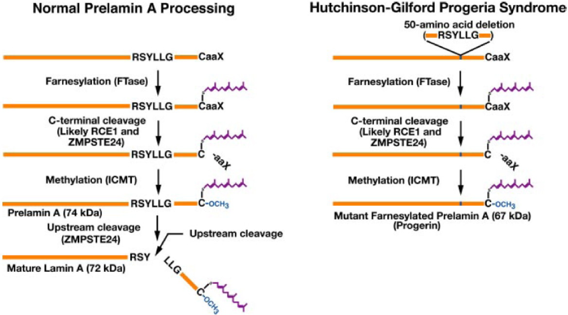 Biogenesis of lamin A in normal cells and the failure to generate mature lamin A in HGPS. In the setting of ZMPSTE24 deficiency, the final step of lamin processing does not occur, resulting in an accumulation of farnesyl-prelamin A. In HGPS, a 50-amino acid deletion in prelamin A (amino acids 607–656) removes the site for the second endoproteolytic cleavage. Consequently, no mature lamin A is formed, and a farnesylated mutant prelamin A (progerin) accumulates in cells. Coutinho et al. Immunity & Ageing 2009 6:4